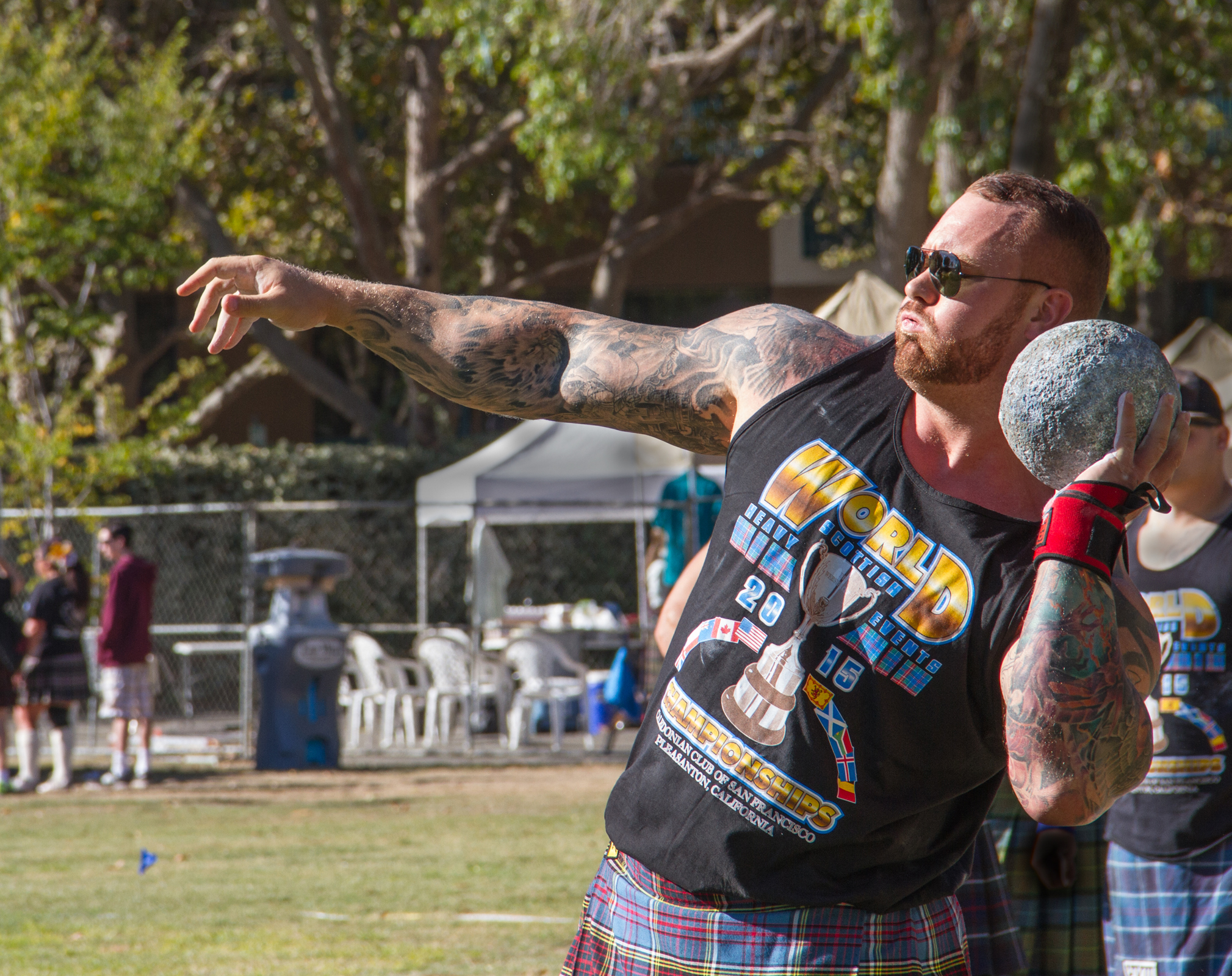 Hafthór Júlíus Björnsson putting the stone Braemar style at the 2015 Caledonian Club's 150th Scottish Highland Games in Pleasanton, California.